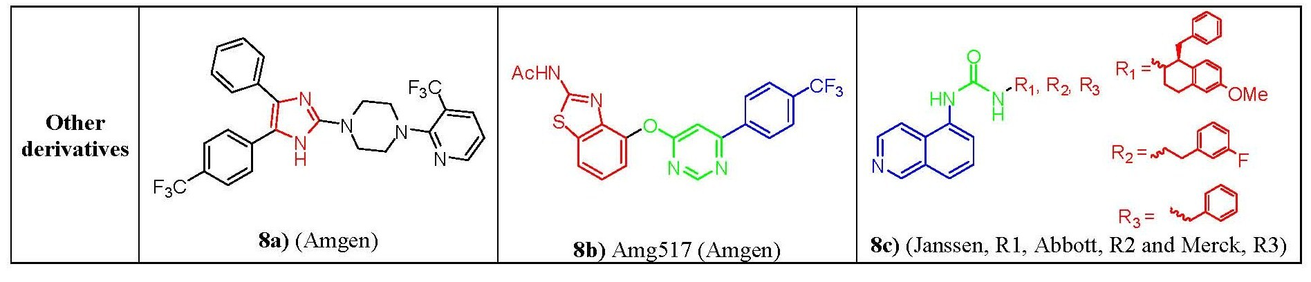 Structure activity relationship of TRPV1 antagonist-other derivatives